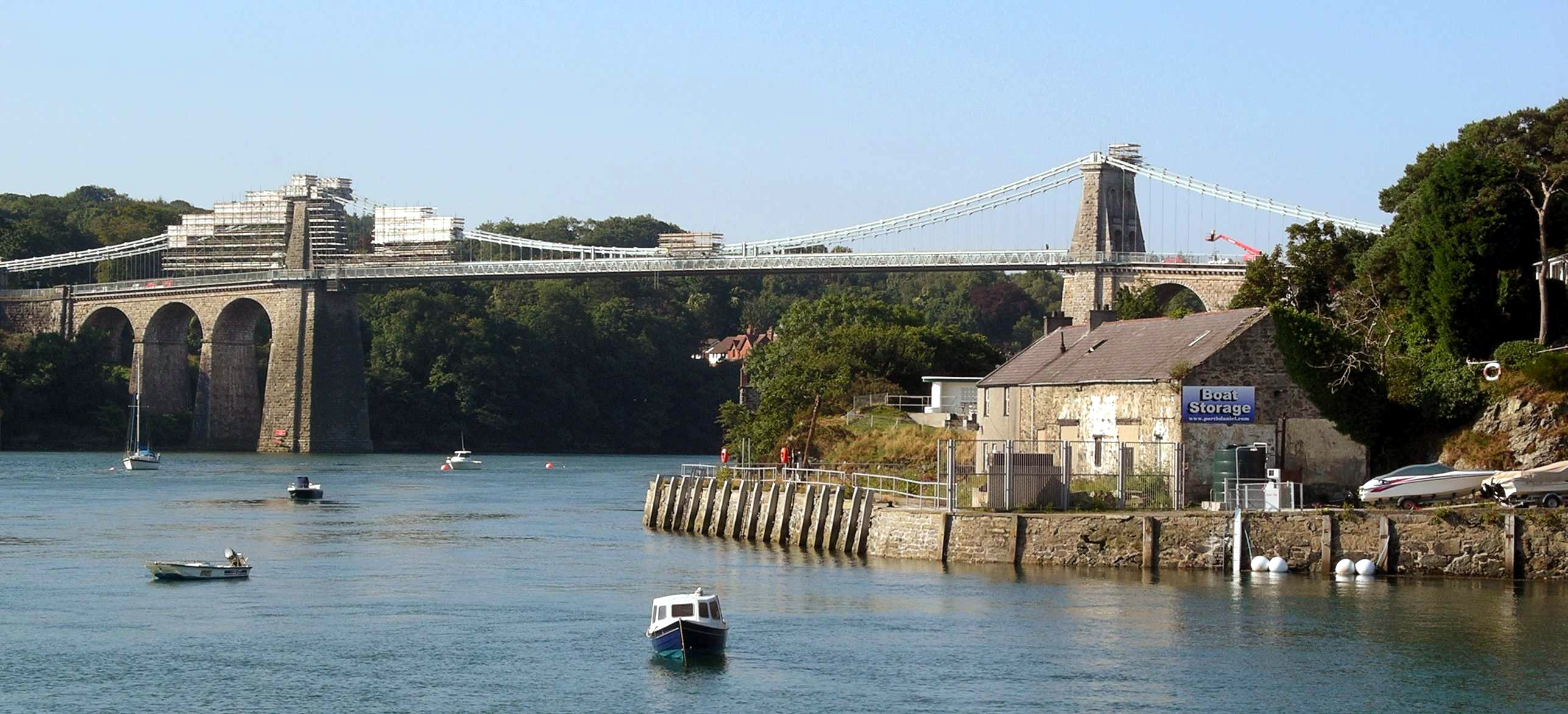 Menai suspension bridge being painted